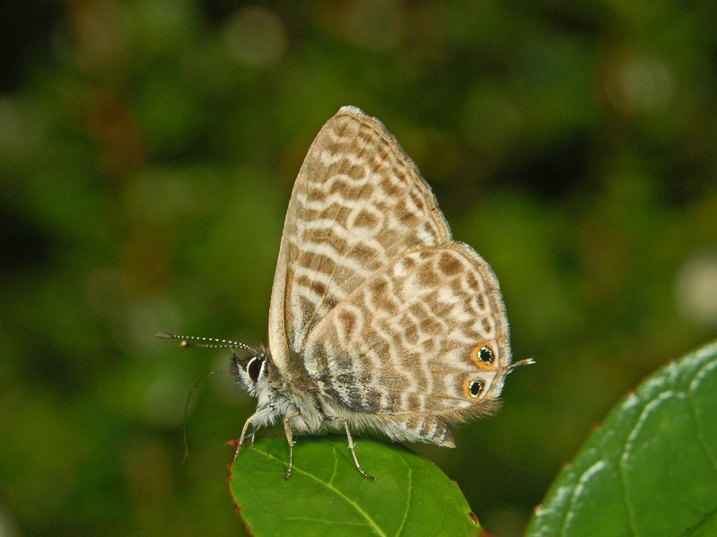 Lycaenidae - Leptotes pirithous